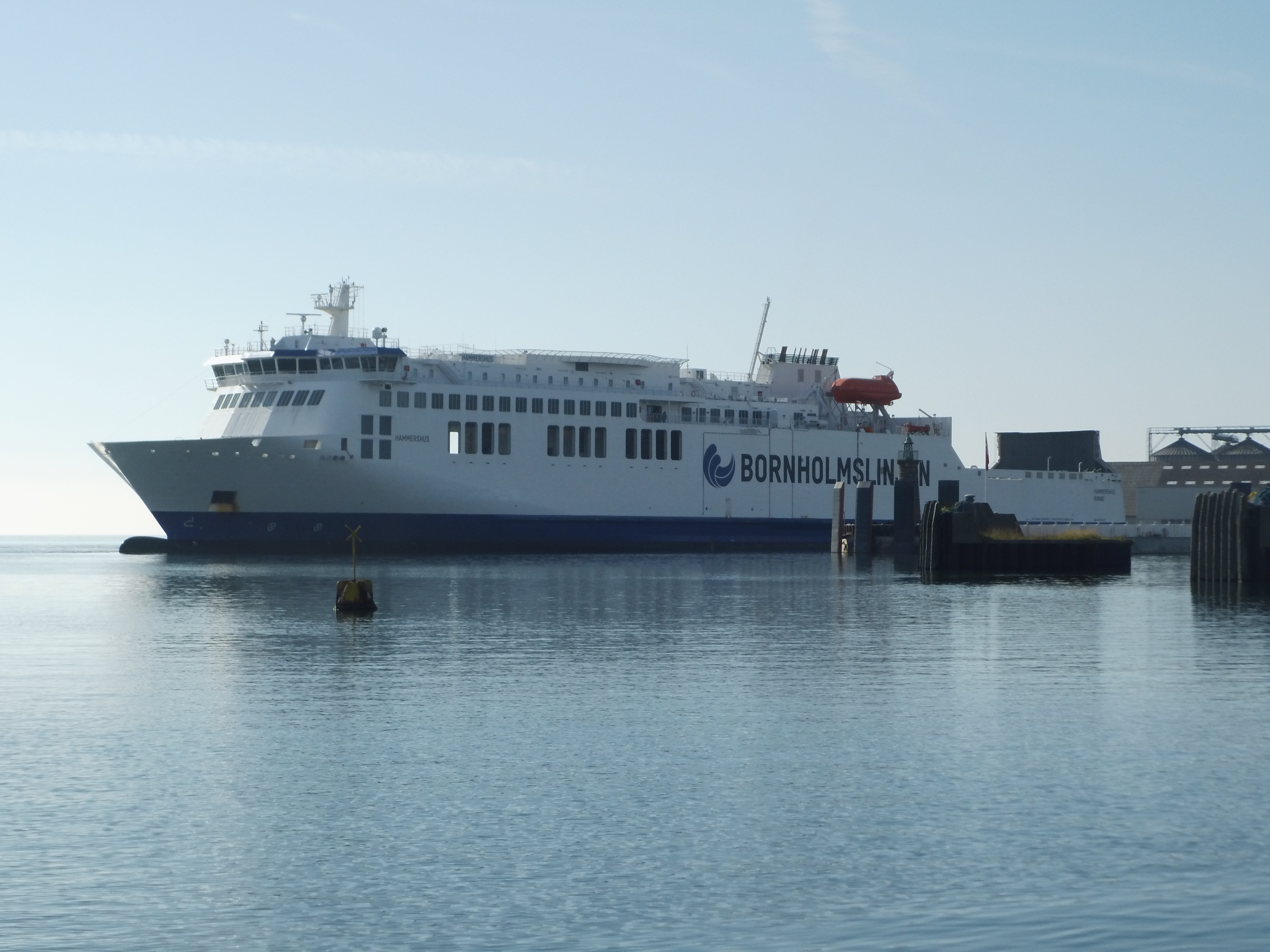 Hammershus entering Rønne.